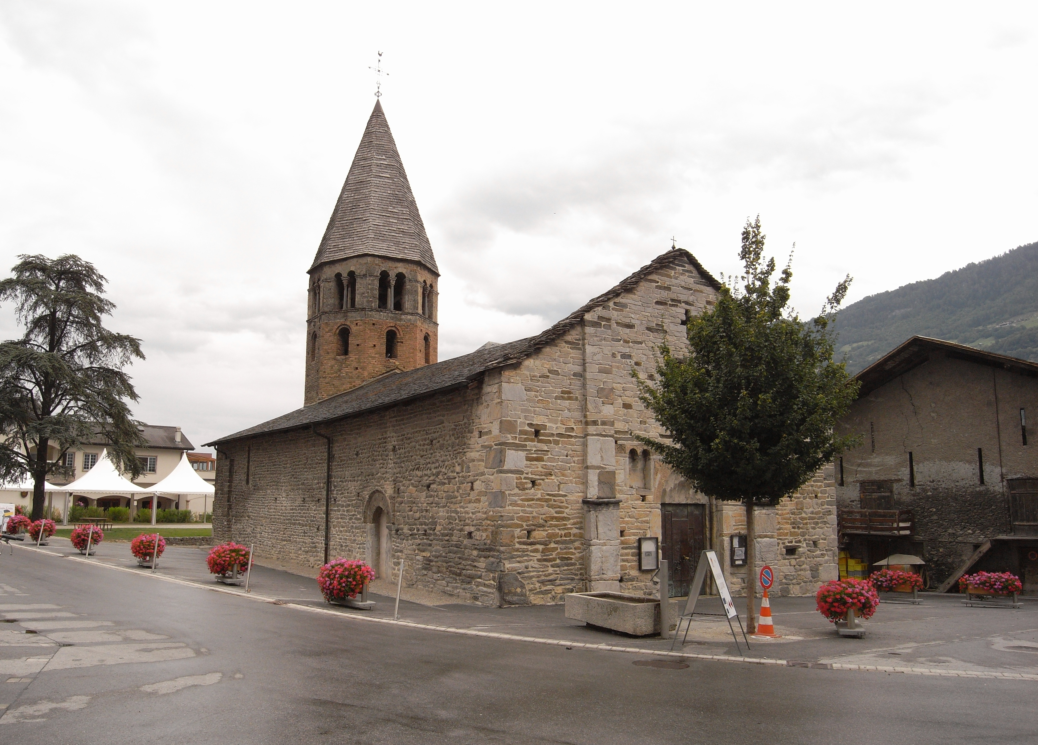 Basilica Saint-Pierre-de-Clages (Canton Valais, Switzerland)